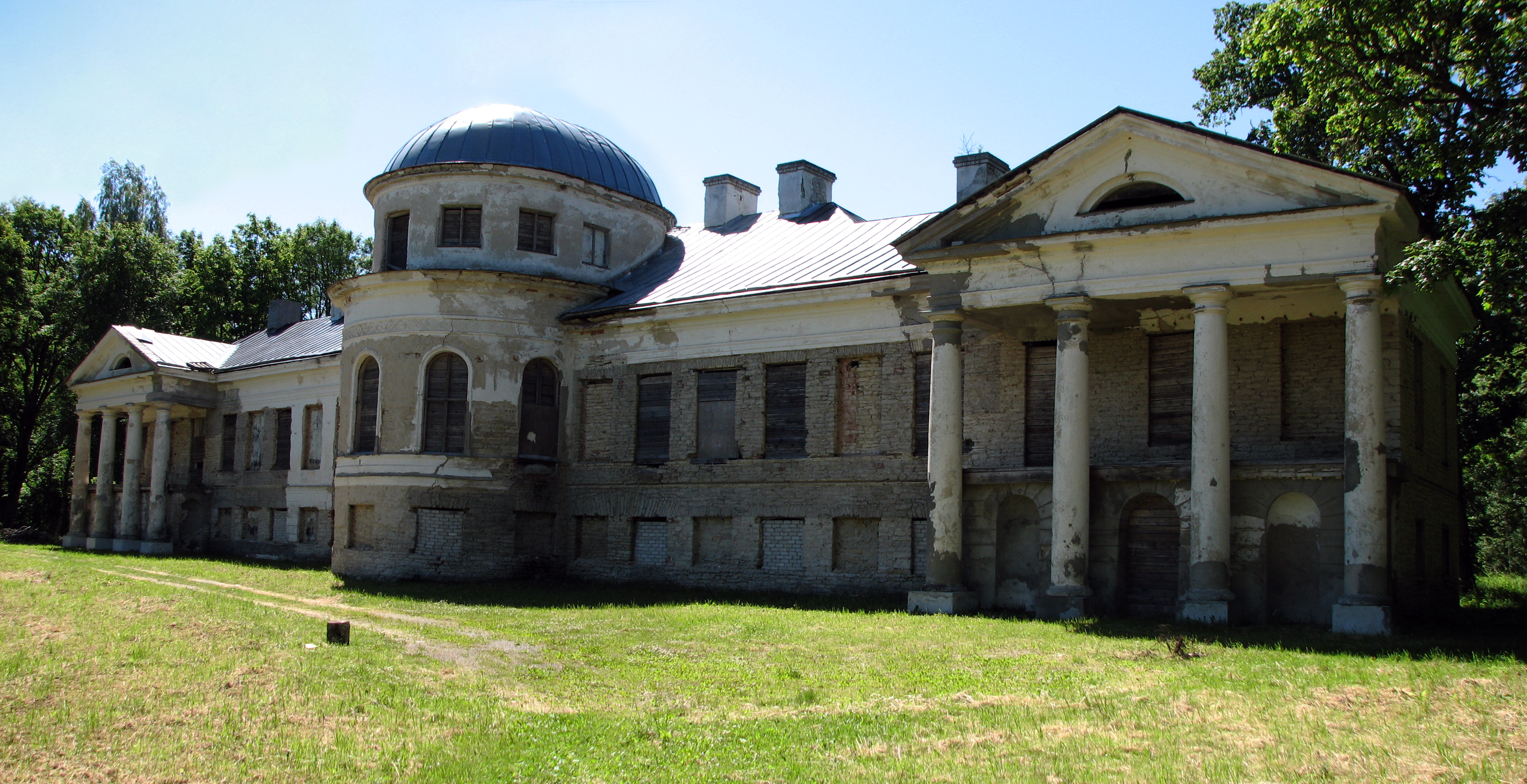 Hõreda manor house